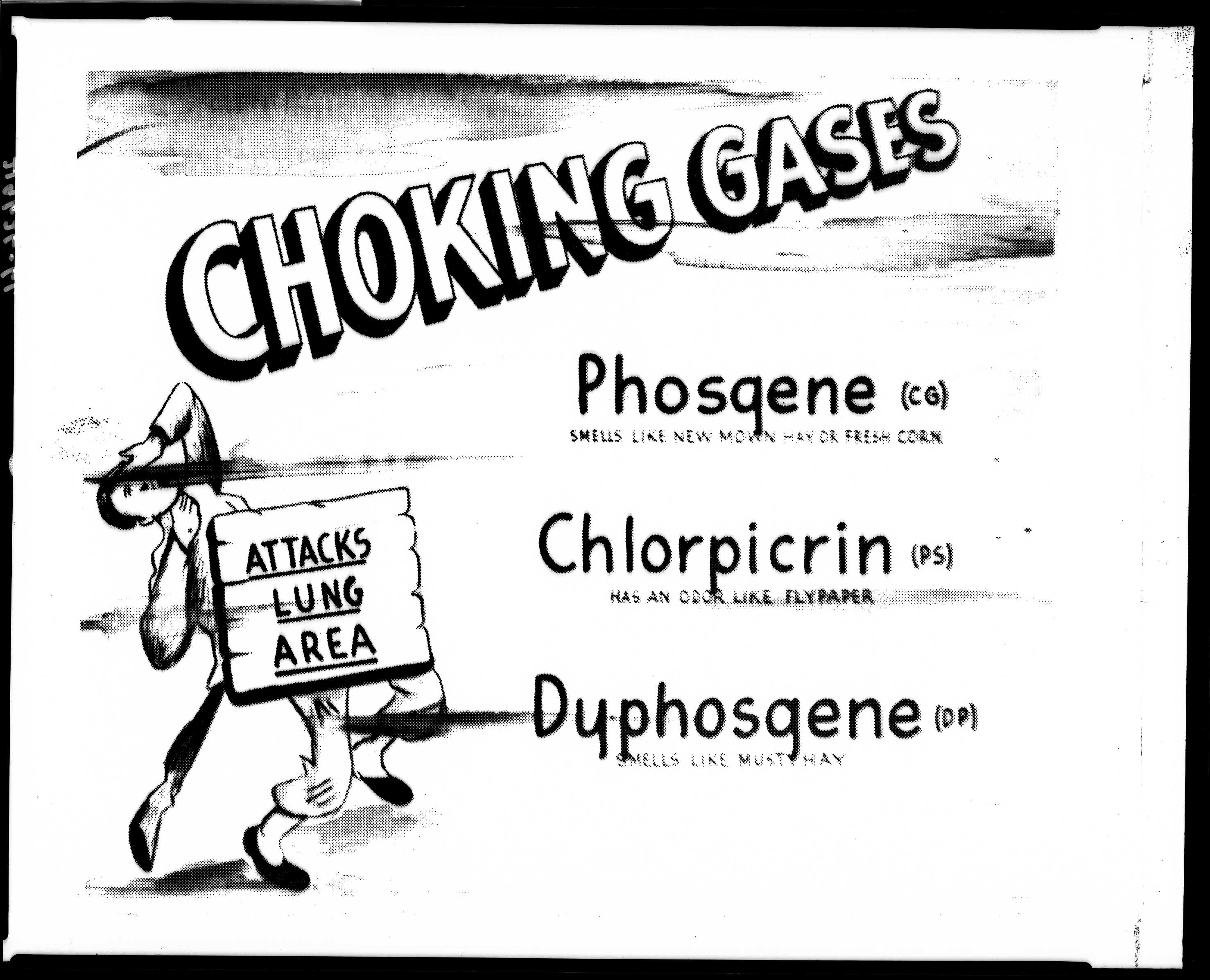 Poster. Sign. "Choking gases [;] Attacks lung area" Phosgene (CG) smells like new mown hay or fresh corn Chlorpicrin (PS) has an odor like flypaper Dyphosgene (DP) smells like musty hay Image of soldier bending over backward, hands at throat and head, dropping rifle.